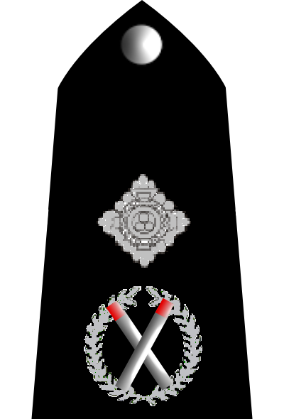 UK Police Deputy Chief Constable rank markings